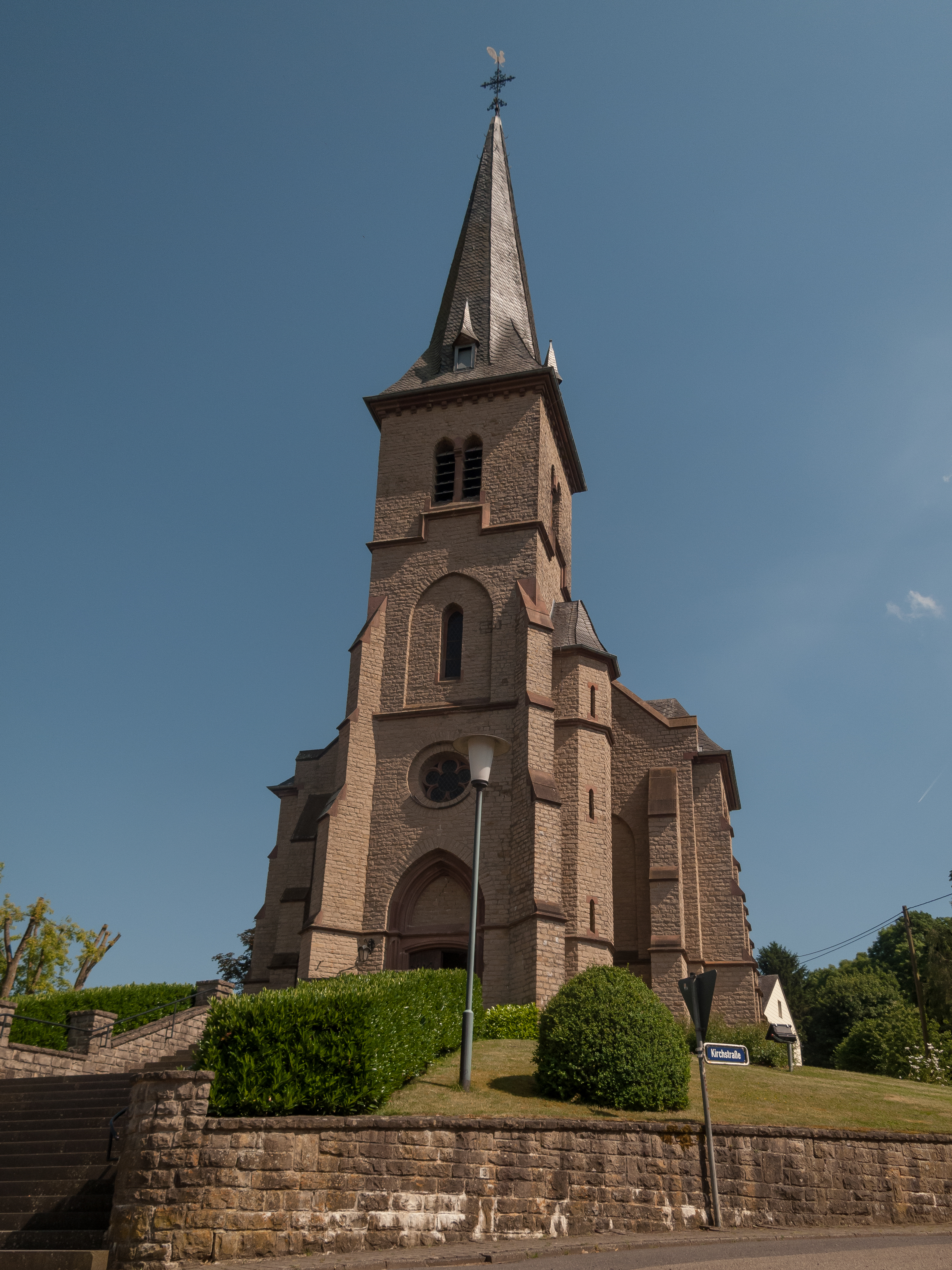 Meckel, church: die katholische Pfarrkirche Sankt Bartholomäus